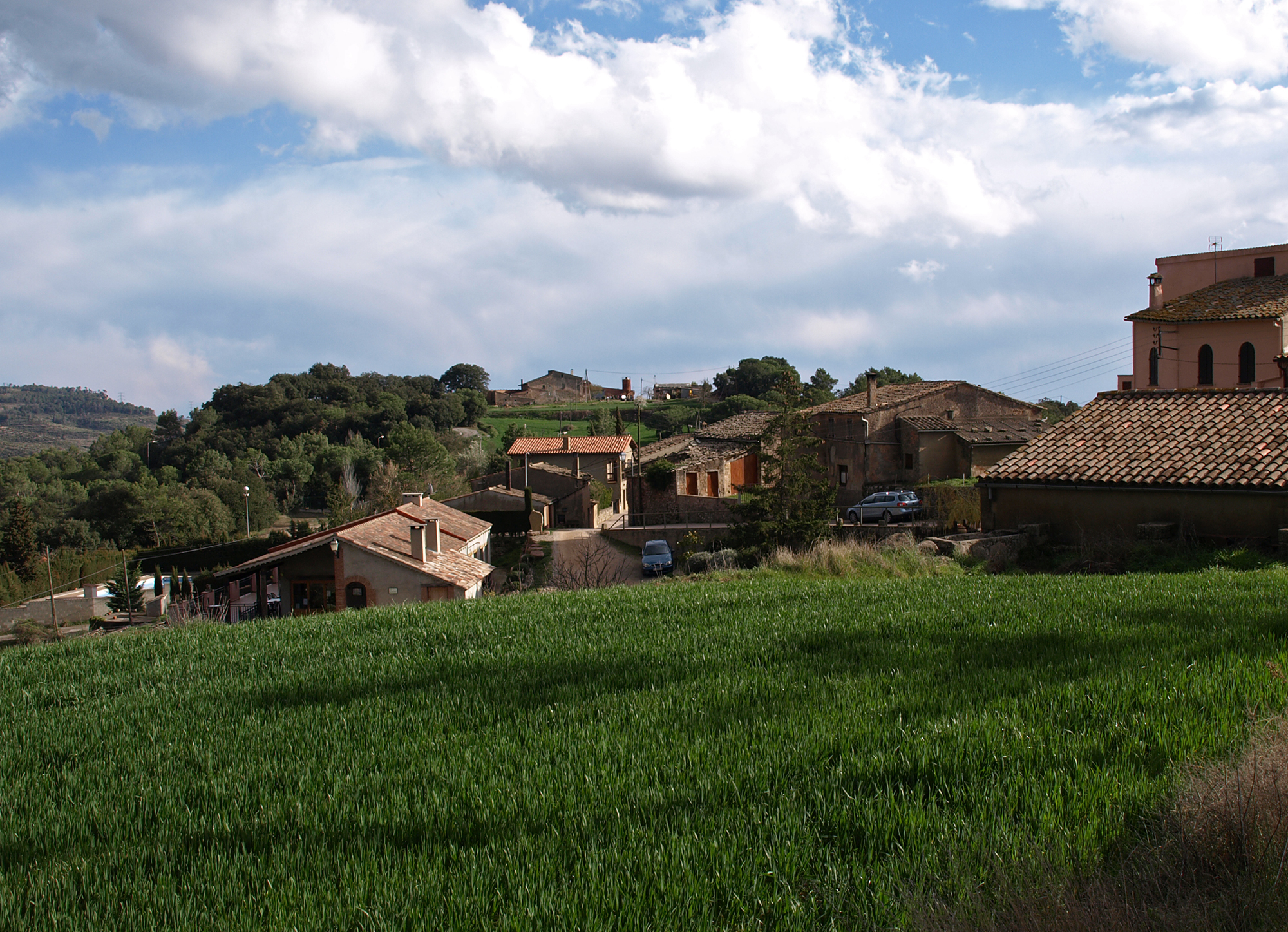 Granera (Catalonia, Spain).